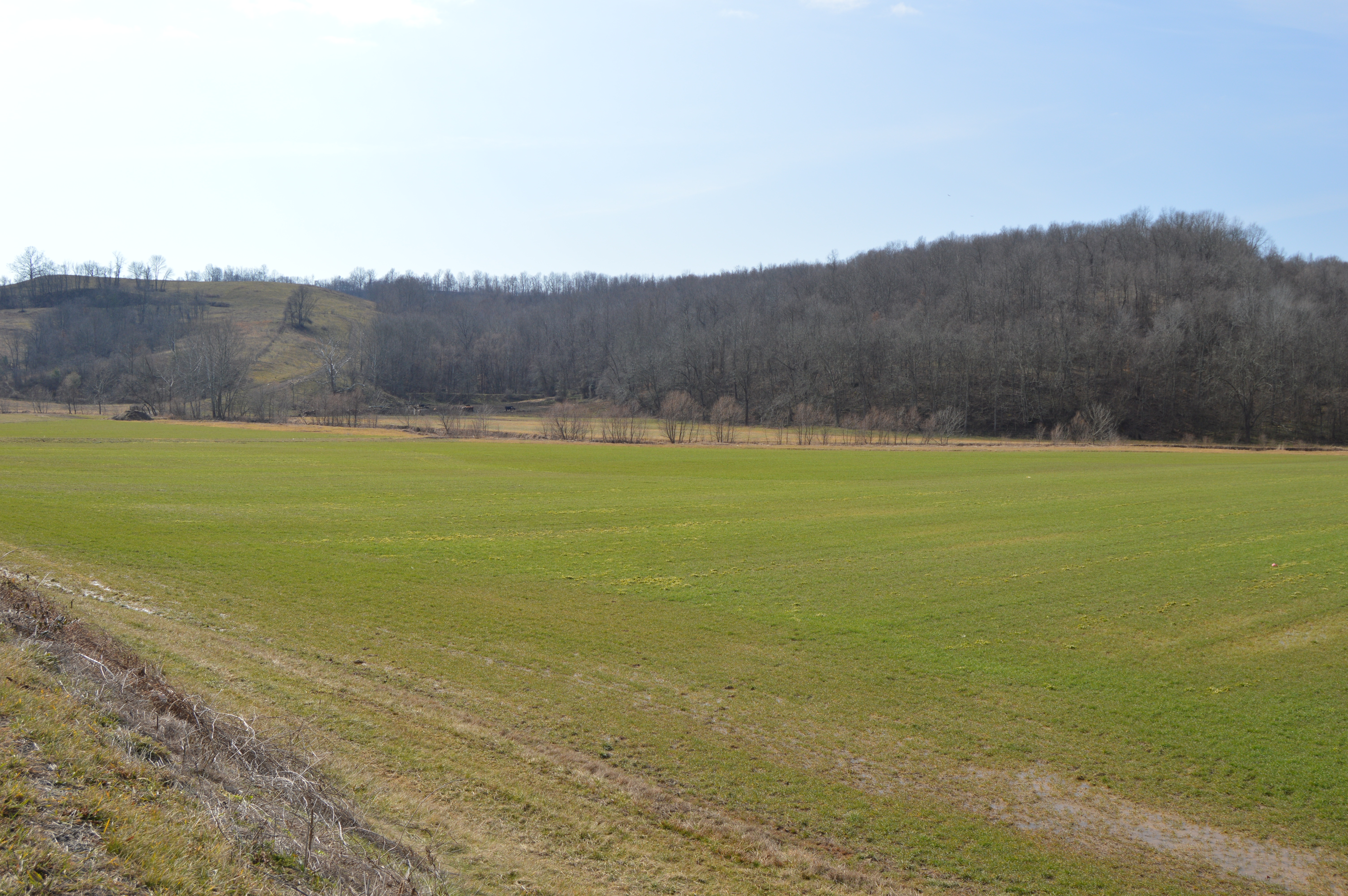 Winter wheat fields in the valley of Symmes Creek, seen looking south from State Route 141 just south of Arabia in far western Mason Township, Lawrence County, Ohio, United States.